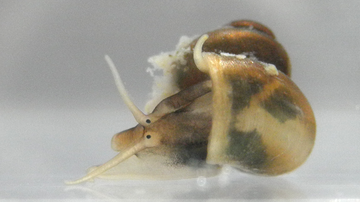 Photo of an oblique left side view of a live Valvata piscinalis. There is a penis above the right tentacle. The distal part of the penis is in the mantle cavity.